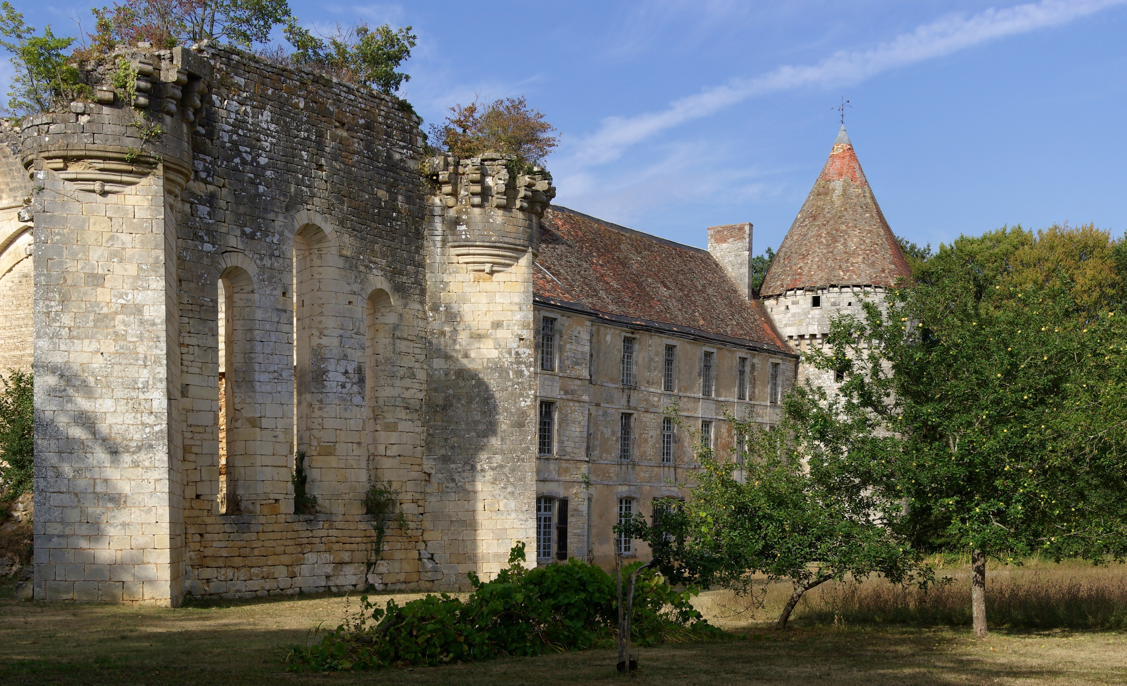 Remains of the abbey and conventual buildings, seen from the garden. La Réaux abbey (XIIth century), Saint-Martin-l'Ars, France. .